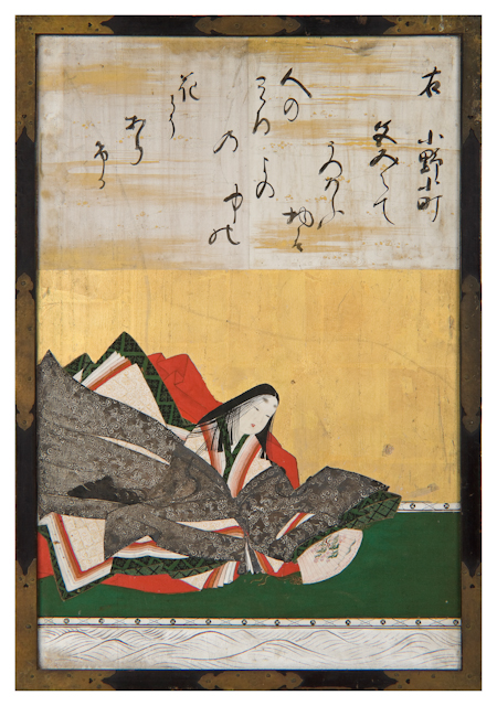 Sanjūrokkasen-gaku (Thirty-six Poetry Immortals framed picture) #12: Ono no Komachi